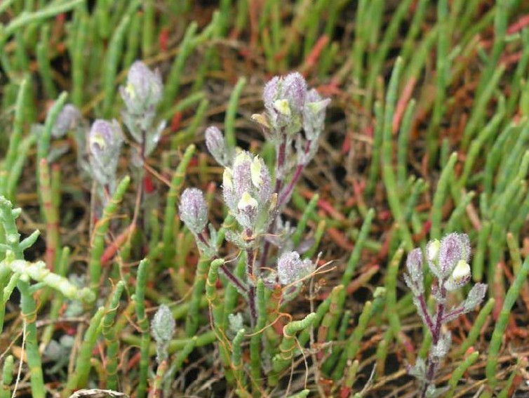 Cordylanthus mollis ssp mollis USFWS photo, no copyright